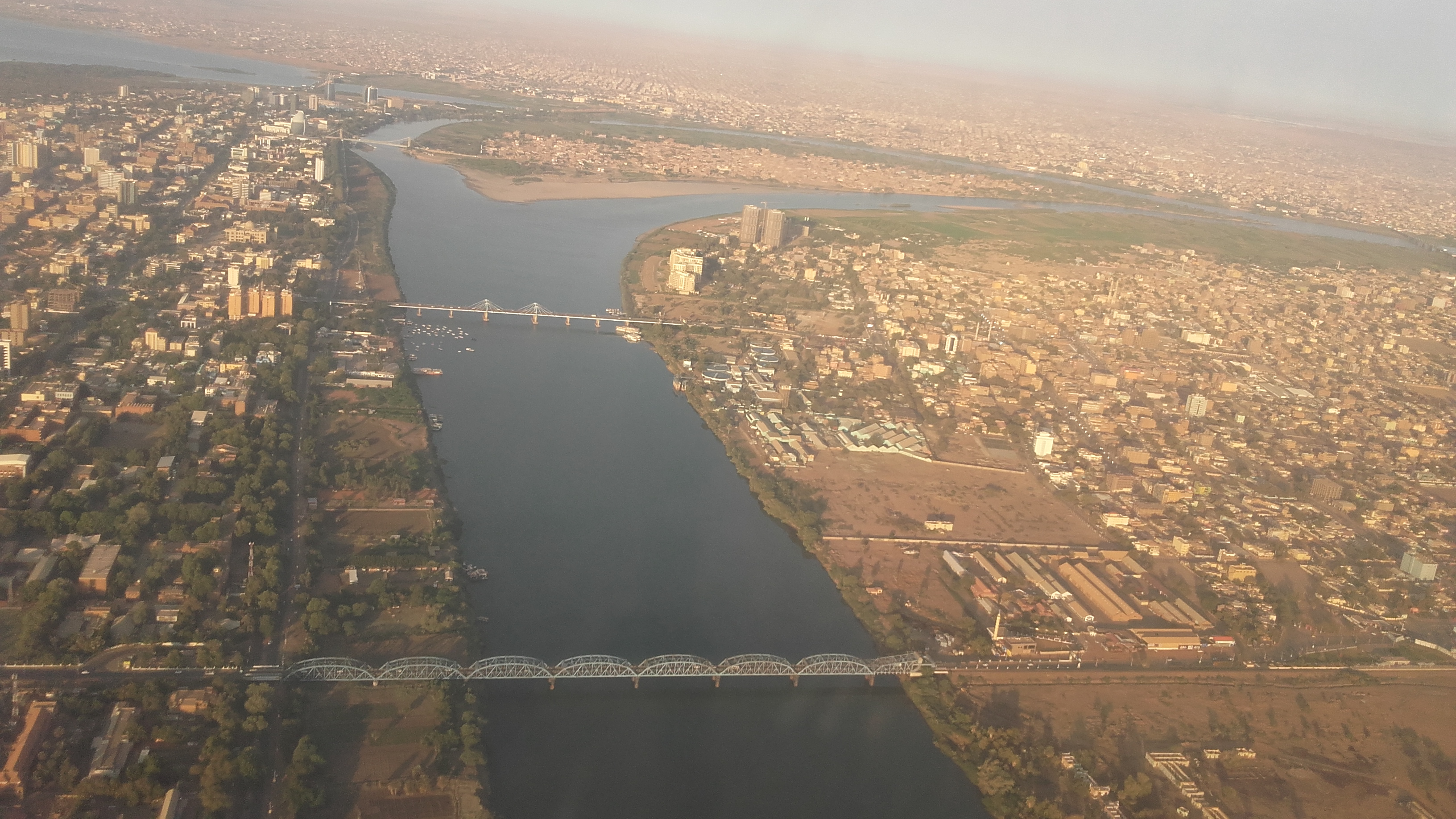 bridegs on the Blue Nile, Sudan This is an image with the theme "Africa on the Move or Transport" from: Sudan